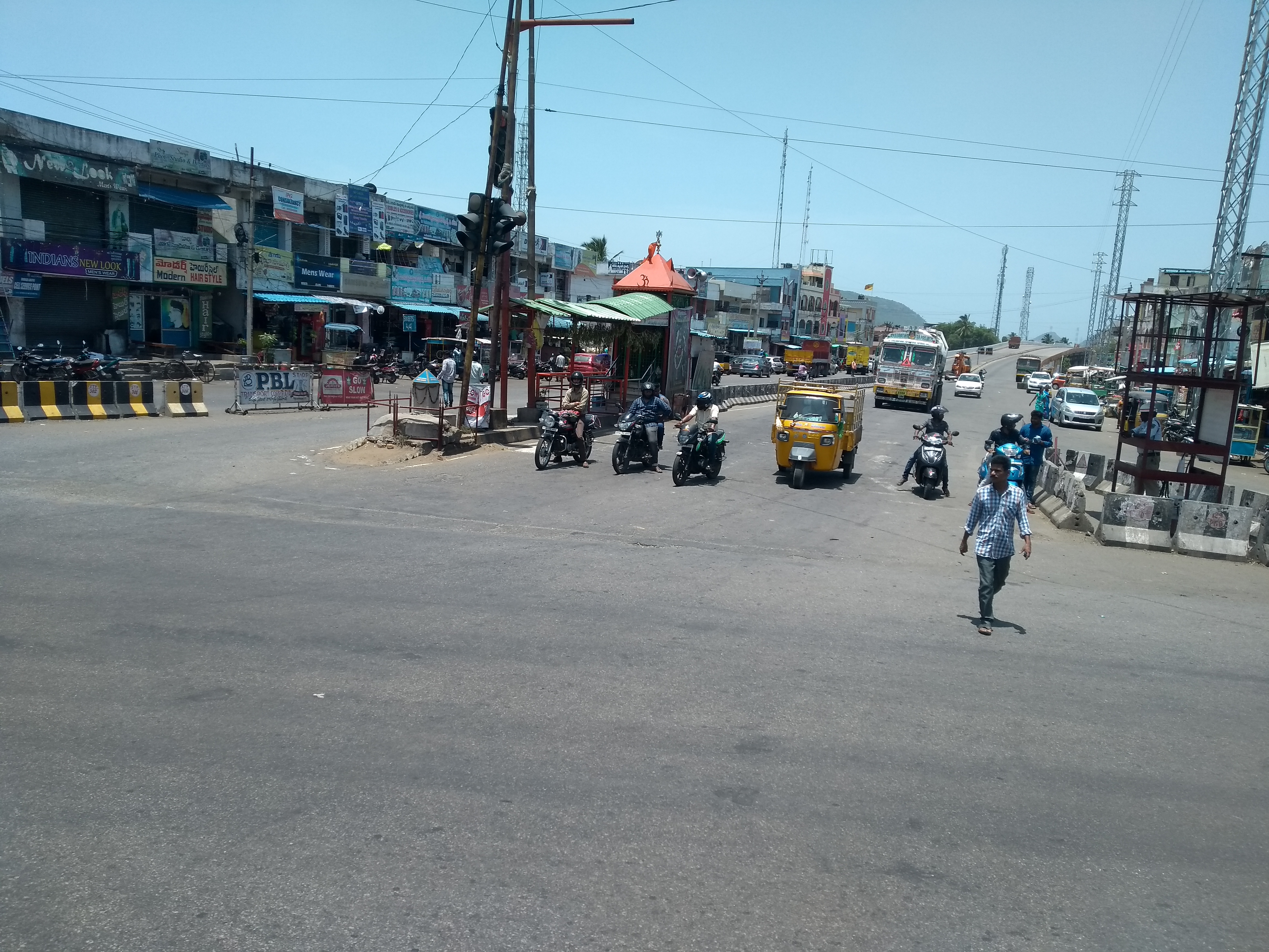 Lankelapalem1